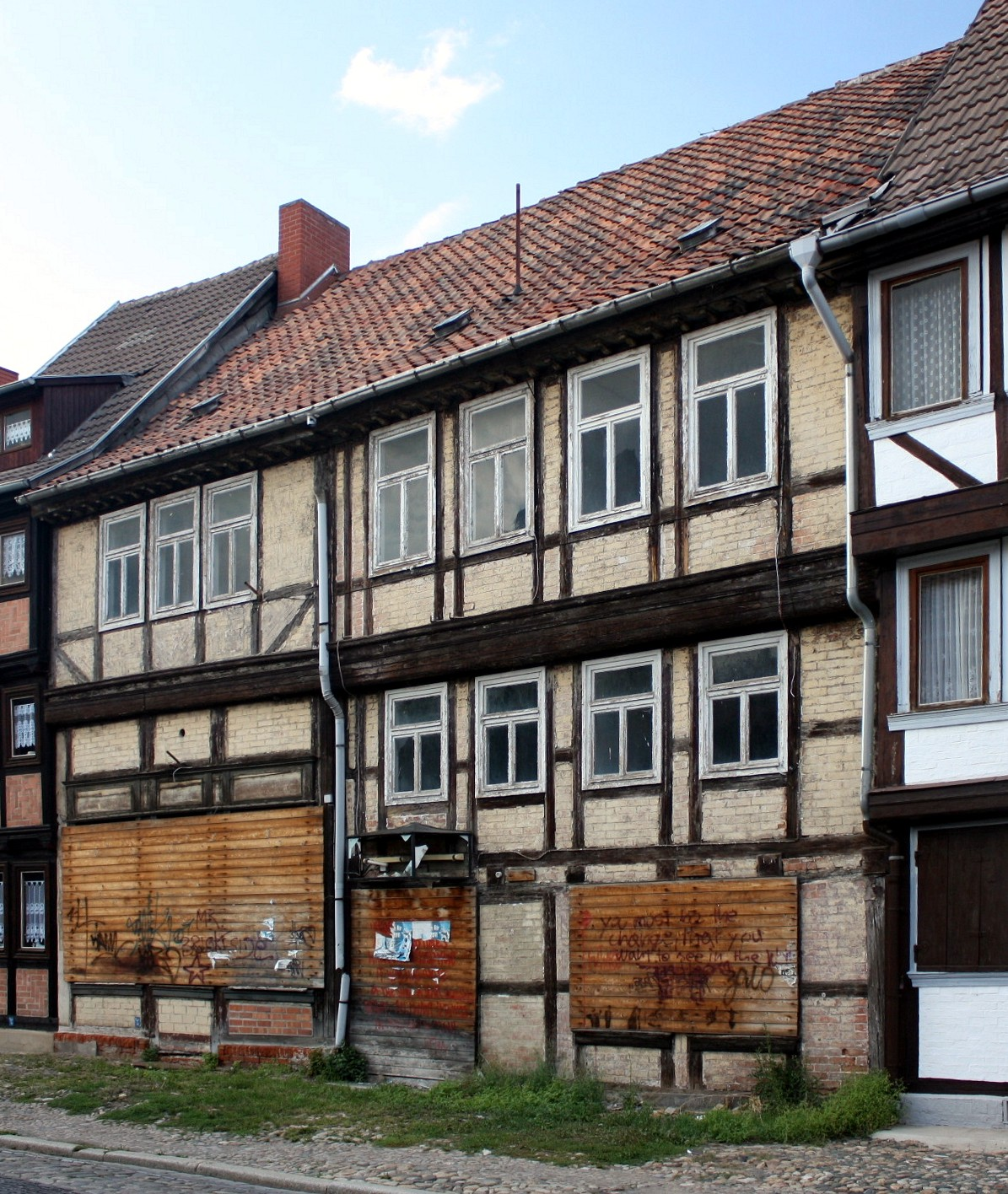 This is a photograph of an architectural monument.It is on the list of cultural monuments of Quedlinburg Augustinern 14 in Quedlinburg